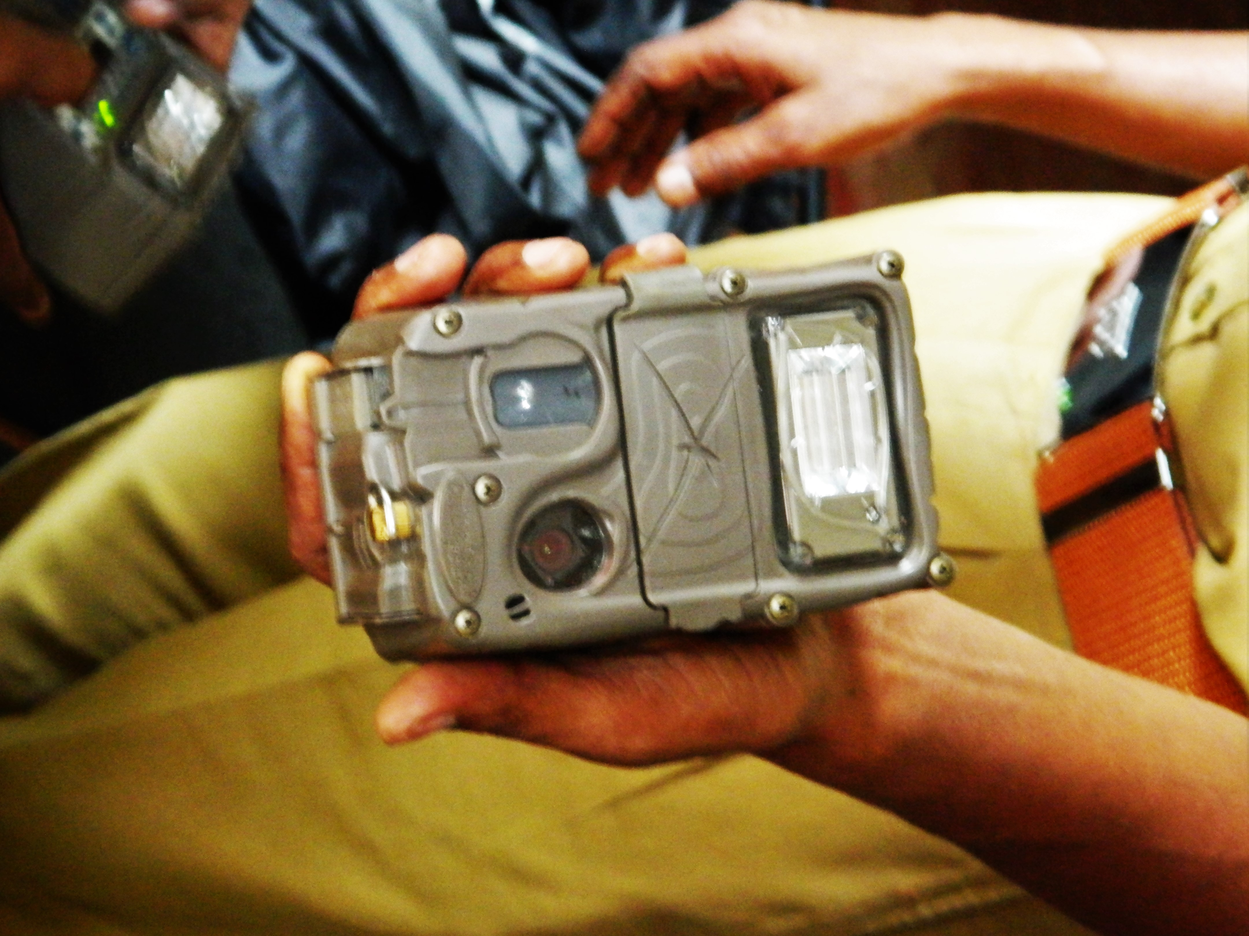 A camera trap is a remotely activated camera that is equipped with a motion sensor or an infrared sensor, or uses a light beam as a trigger. Camera trapping is a method for capturing wild animals on film when researchers are not present, and has been used in ecological research for decades. In addition to applications in hunting and wildlife viewing, research applications include studies of nest ecology, detection of rare species, estimation of population size and species richness, as well as research on habitat use and occupation of human-built structures.